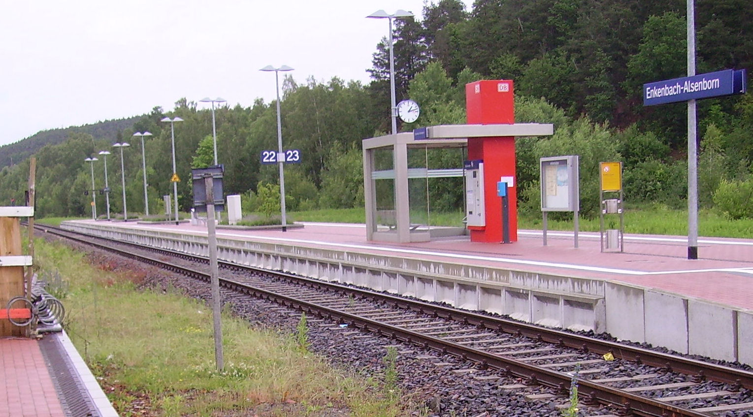 view of Enkenbach, Germany